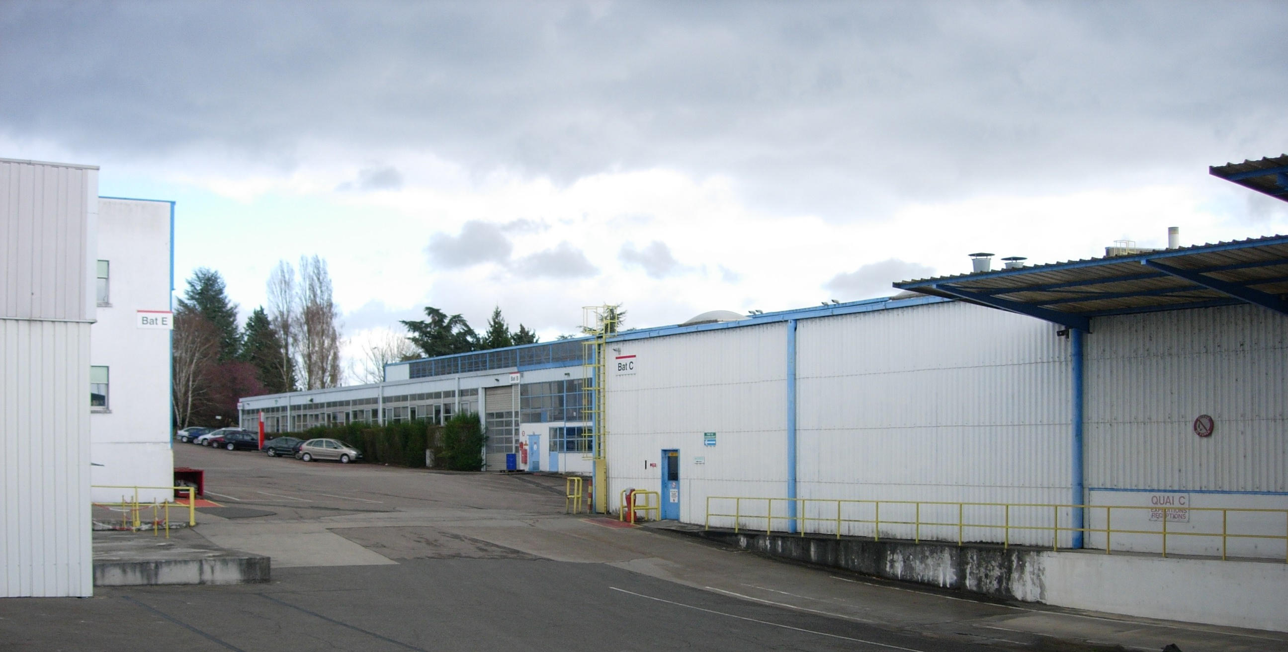 Para-chemical factory in France.